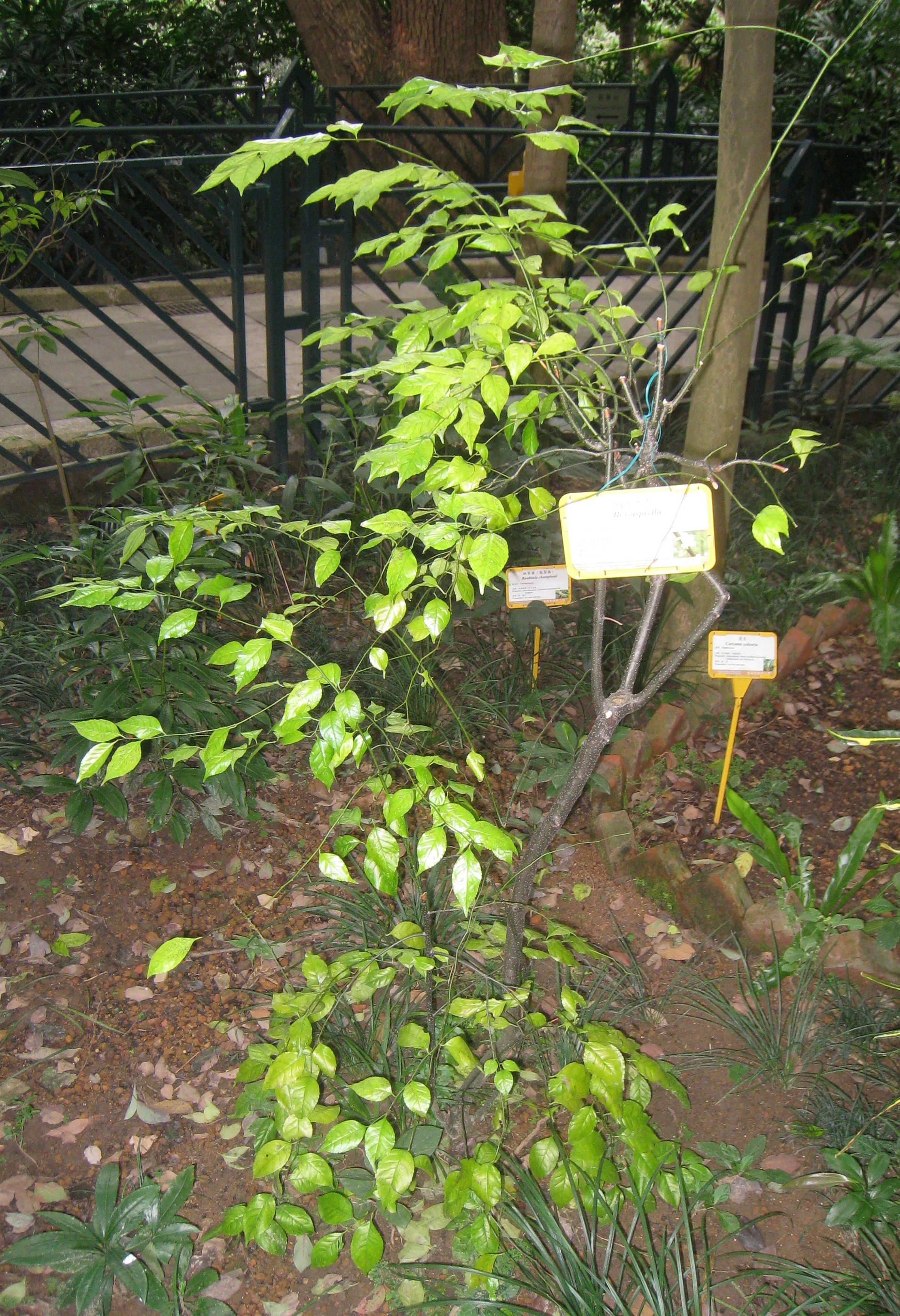 Ilex asprella. Plant specimen in the Hong Kong Zoological and Botanical Gardens, Hong Kong.